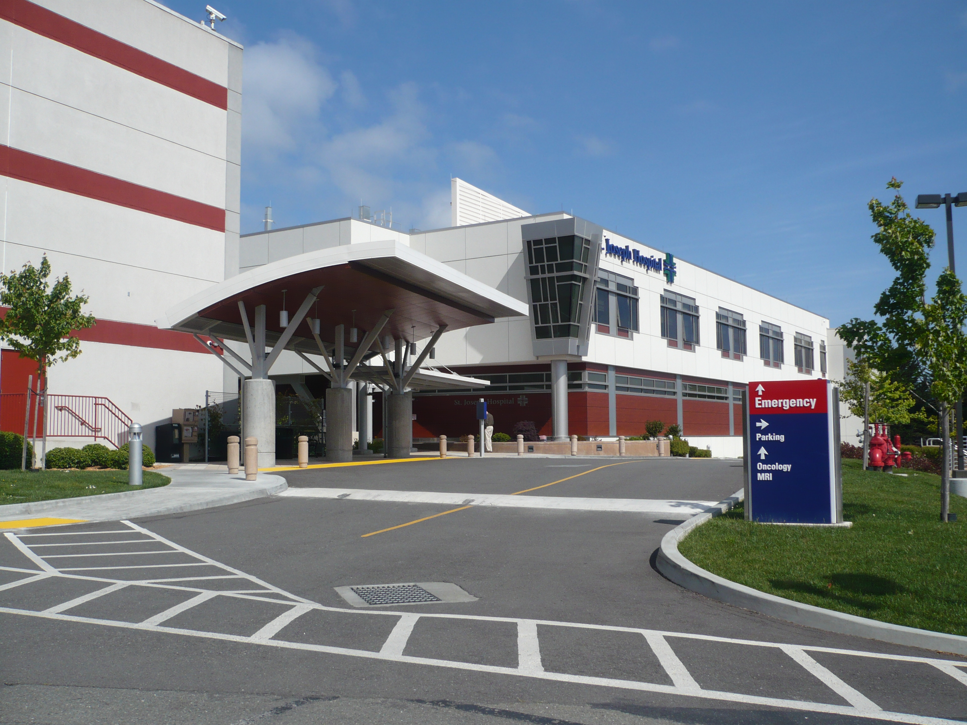 St. Joseph Hospital is a general medical and surgical hospital in Eureka, California. The hospital was founded in 1920 with 28 beds by the Sisters of St. Joseph of Orange and moved to its present location on Dolbeer Street in 1954.